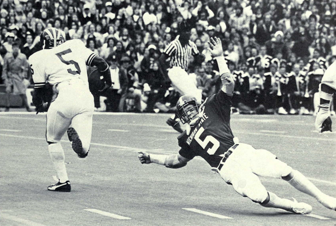 Photograph of Gordon Bell in 1975 game against Michigan State